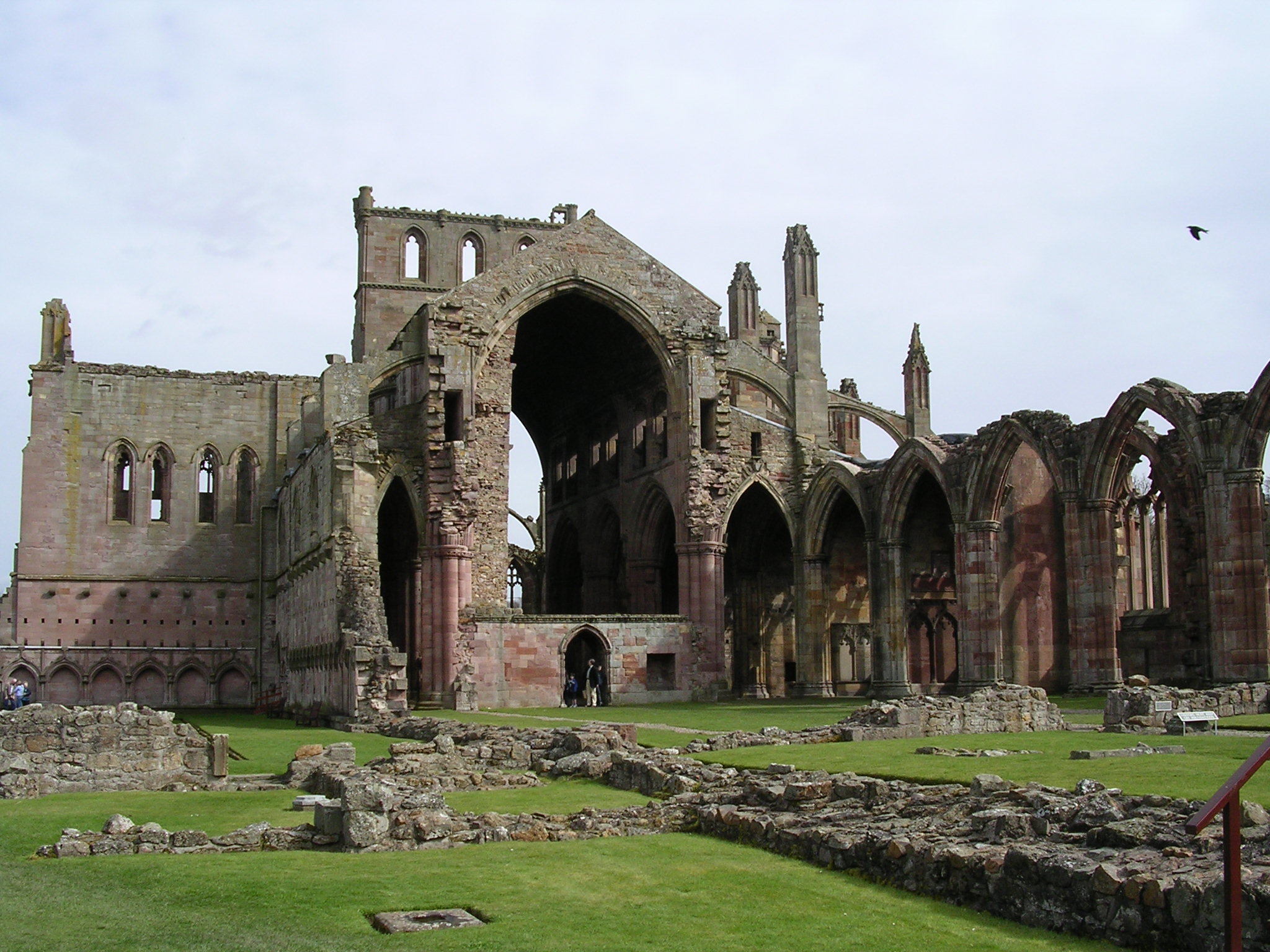 The ruins of Melrose Abbey, The Borders, Scotland.